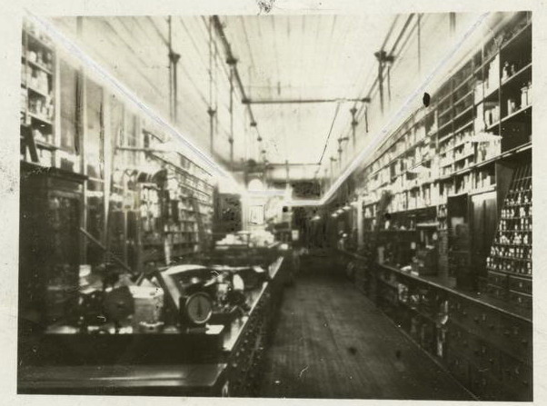 1904 Photograph illustrating interior lighting by the first installation of Moore tubes, which were the first commercially viable electric discharge lamps. The photograph is of the interior of a hardware store in Newark, New Jersey. The image was digitized on June 25, 2010 from an original in the New York City Public Library; the contrast was further adjusted by the uploader. Item/Page/Plate: 5.352 Notes: Courtesy of D. McFarlan Moore. Source: "The Pageant of America" Collection / v.5 - The epic of industry / (Published photographs) Source Description: Approx. 8,000 photographs Location: Stephen A. Schwarzman Building / Photography Collection, Miriam and Ira D. Wallach Division of Art, Prints and Photographs Digital ID: 95160 Record ID : 131875